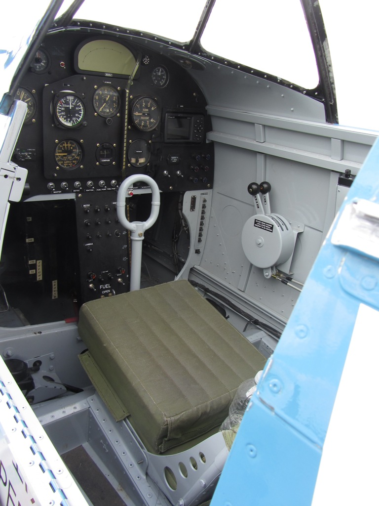 Spitfire Mk26b instrument panel